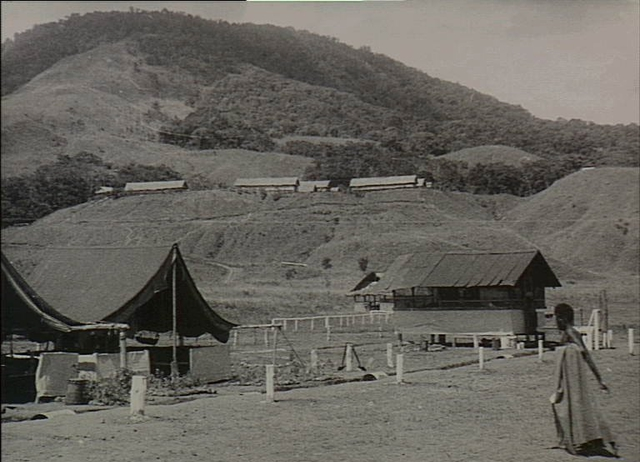 A Company, 3rd New Guinea Infantry Battalion's lines at Nadzab, 8 September 1945